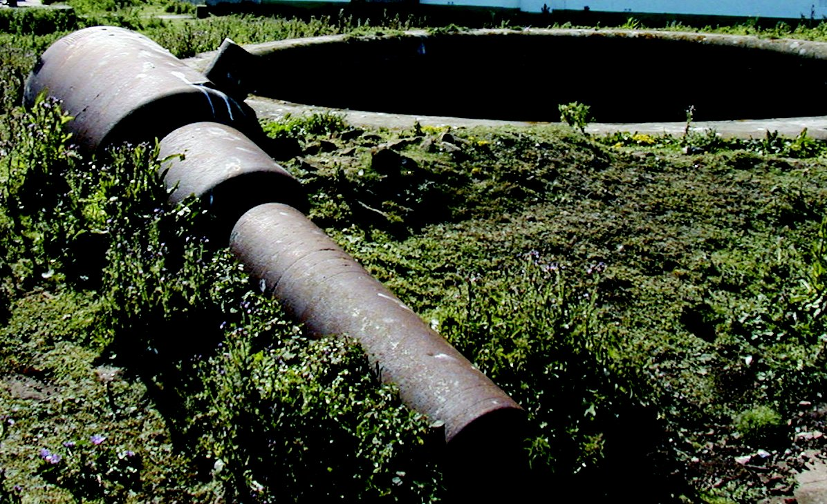 Flat Holm Island. Canon adjacent to the lighthouse. Comment : This is an RML 7 inch 7 ton Mk III gun.